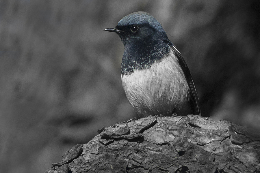 The specie Blue-capped Redstart had been photographed at Uttarakhand, India during the bird photography tour of GoingWild.